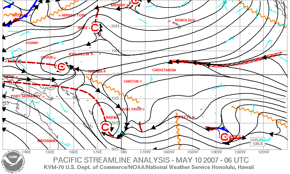 National Weather Service Office Honolulu, HI